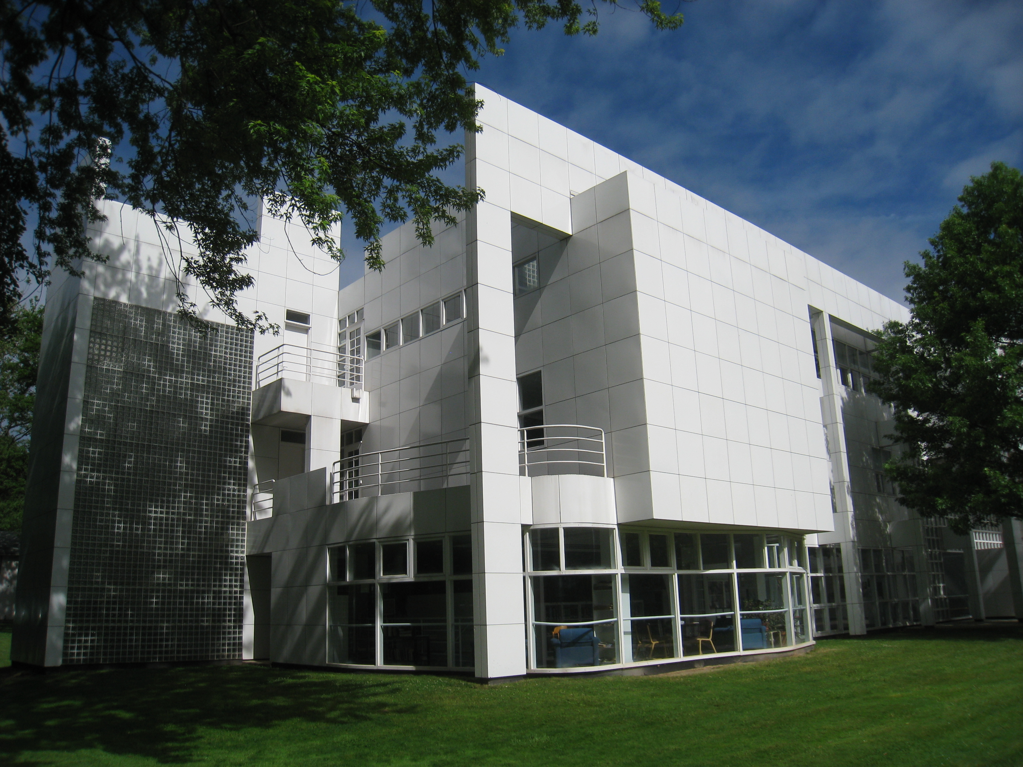 Hartford Seminary - 77 Sherman Street, Hartford, Connecticut, USA. Architect Richard Meier, built 1978-1981.